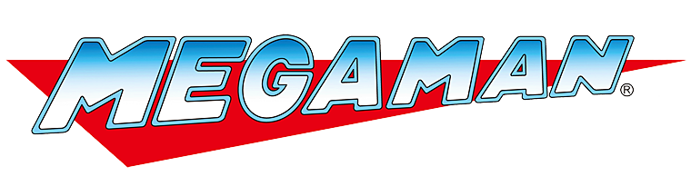 The logo of Mega Man